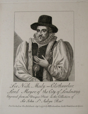 Sir Nich. Mosly — Clothworker, Lord Mayor of the City of London 1599, "Published as the Act directs Sept. 1 1795 by W. Richardson Castle Street Leicester Square"